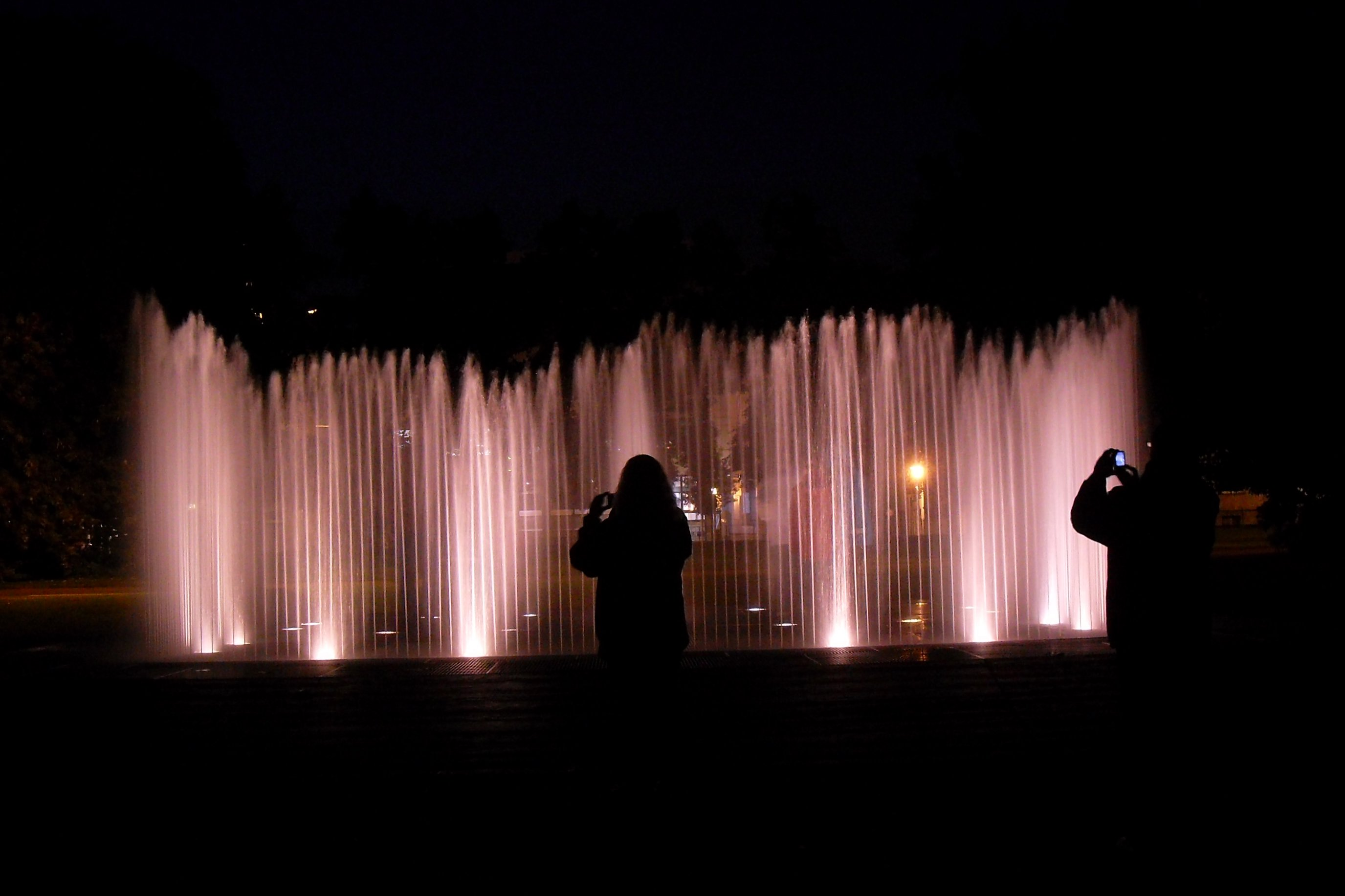 object of light art at the Lichtparcours 2010 in Braunschweig